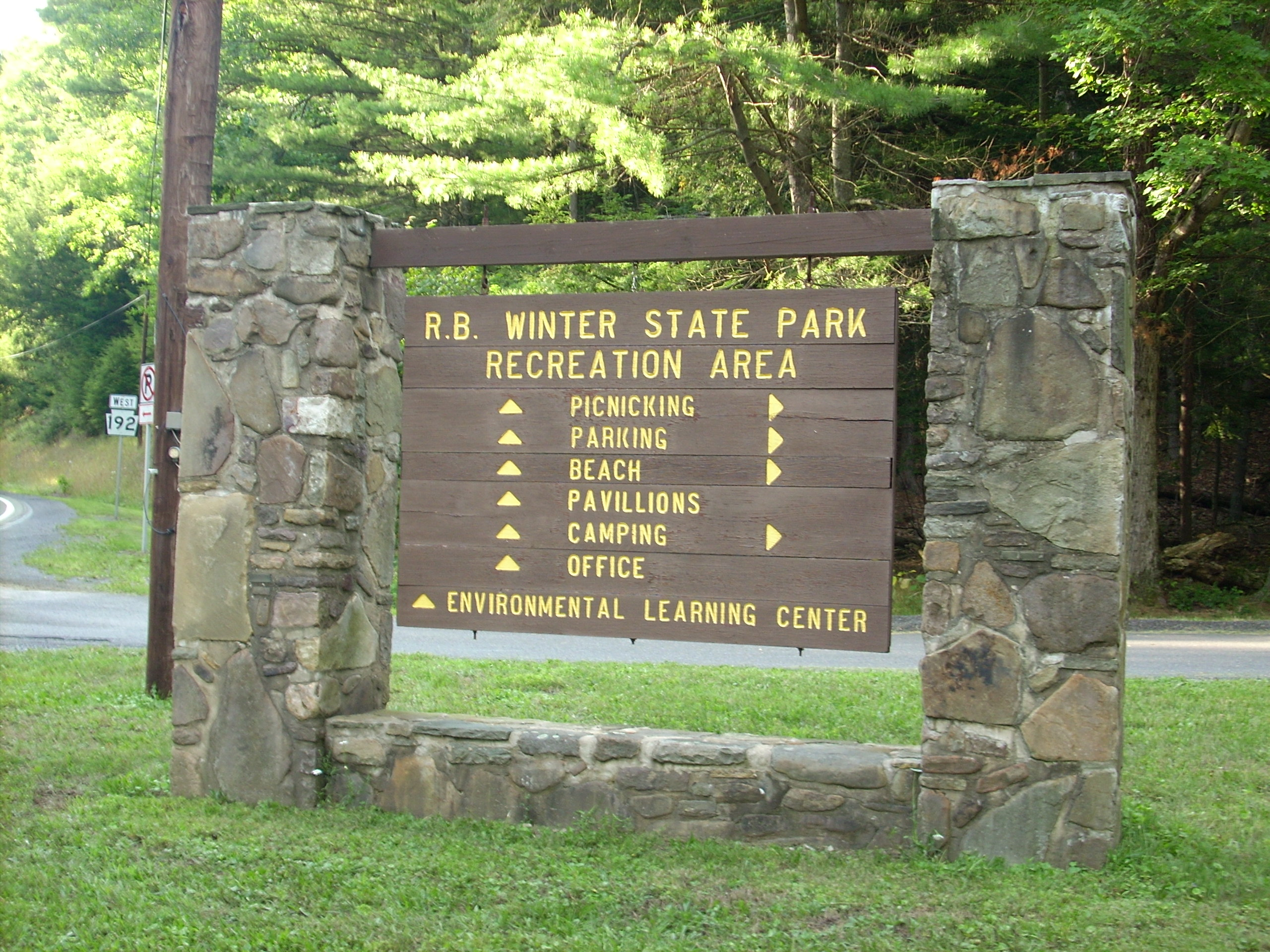 Directional sign at R. B. Winter State Park, Hartley Township, Union County, Pennsylvania, USA.